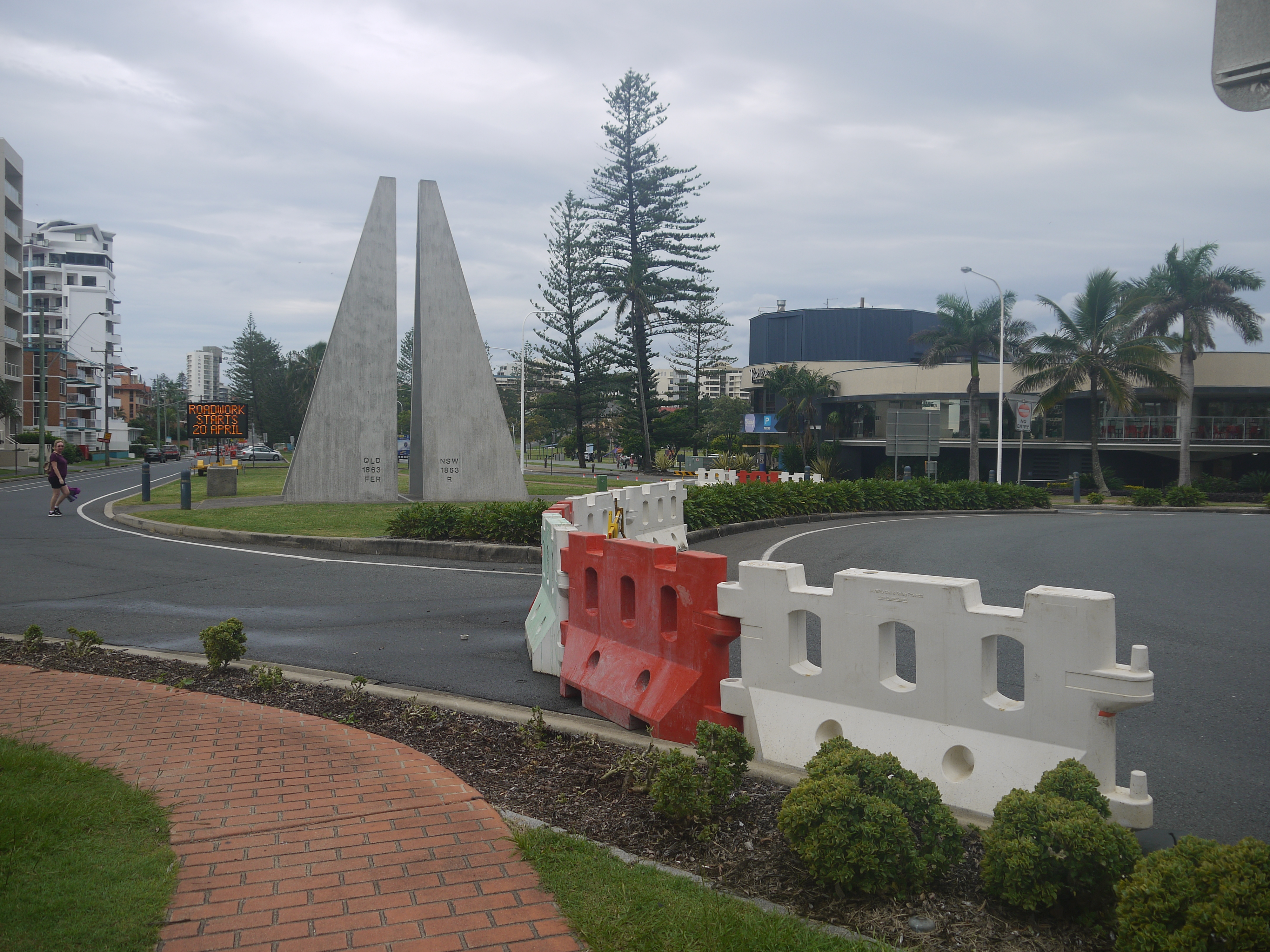 Queensland Border Closures during the COVID-19 Pandemic